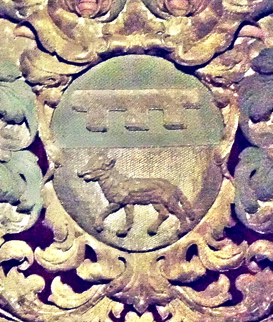 Familienwappen Wolfff von Metternich zur Gracht, von Pluviale im Speyerer Domschatz (um 1690), Historisches Museum der Pfalz, Speyer